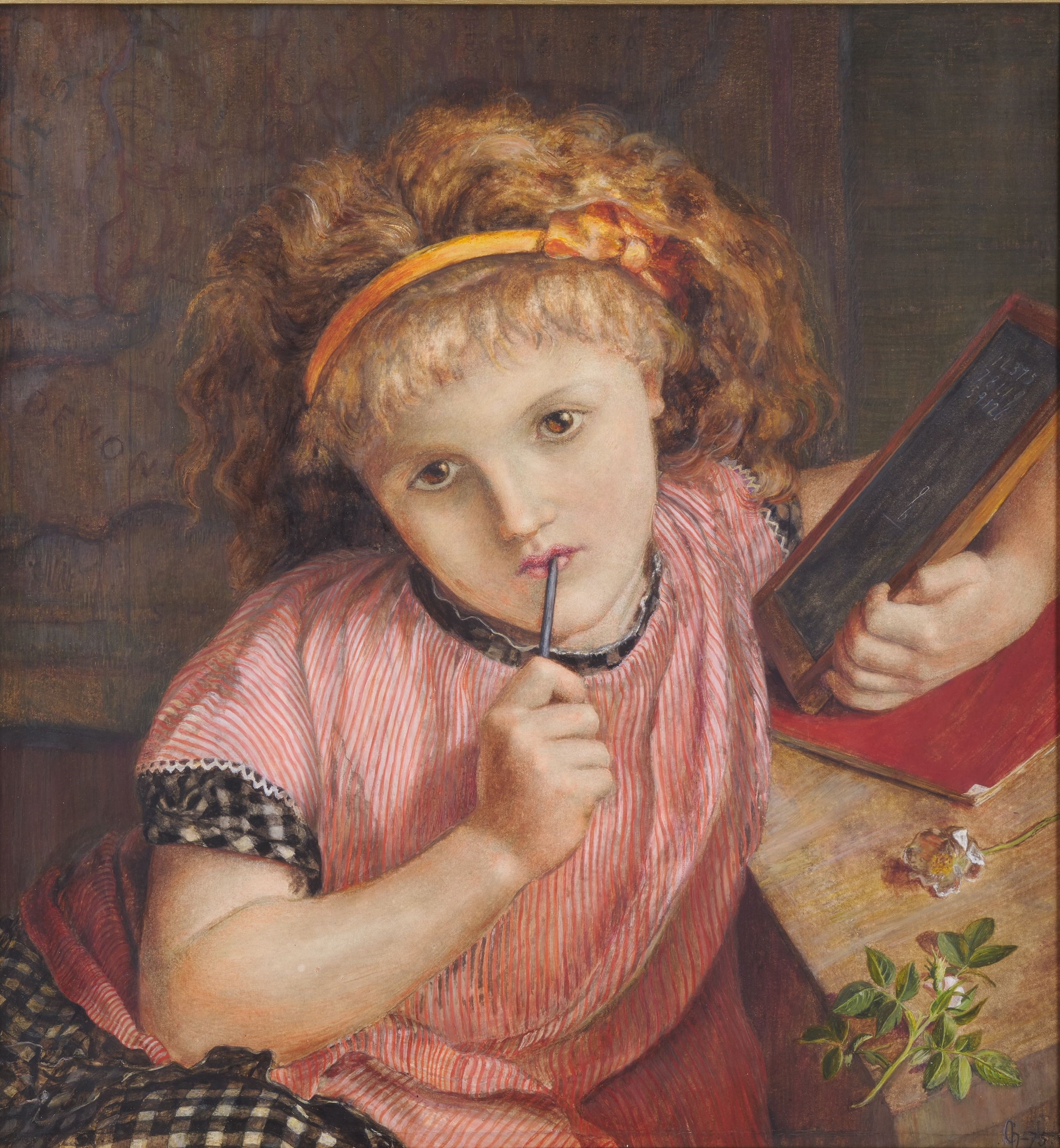 This depiction of a child working on a simple mathematics "problem" is by Catherine Madox Brown. Very few of her art works are currently available online. Catherine was the first child of Ford Madox Brown and Emma Hill.